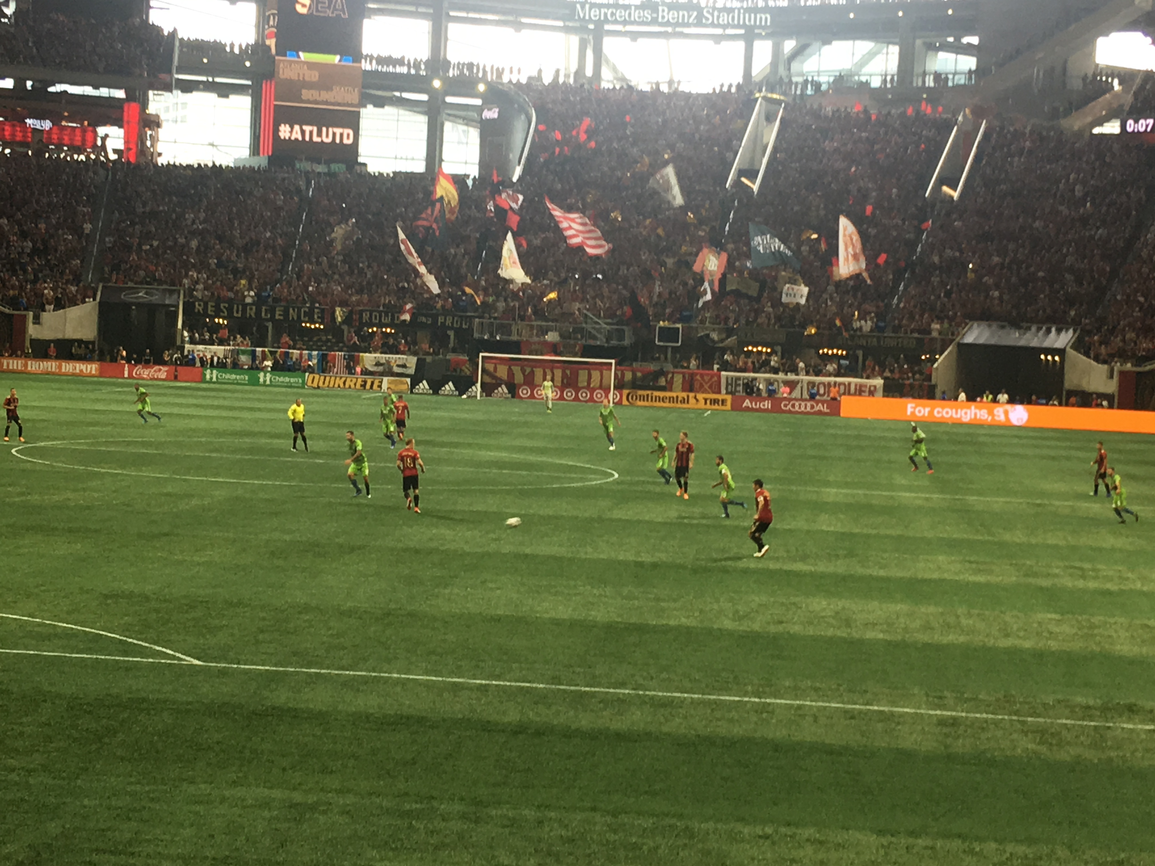 2018-07-15 - Atlanta United vs Seattle Sounders